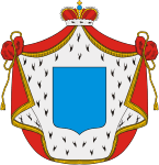 ducal mantling